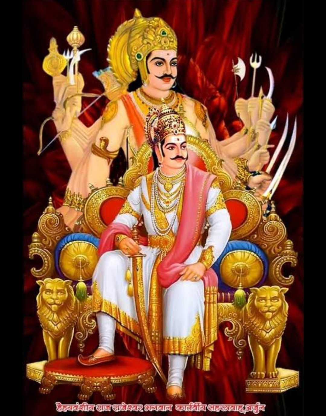 Raj Rajeshwar Chakravarti Samrat Kaartavirya Sahasrabahu Arjun Maharaj